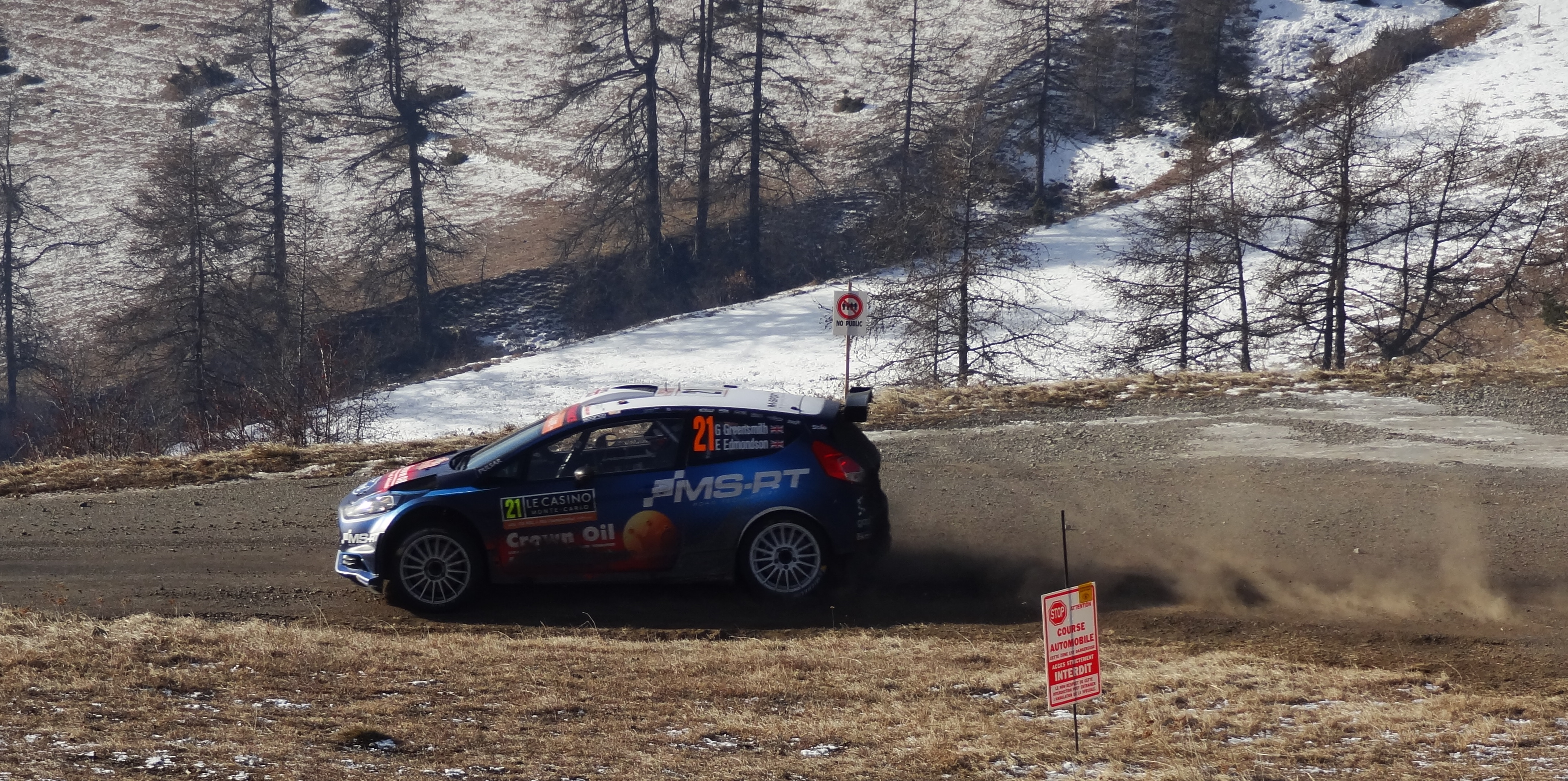 Ford Fiesta R5 de Gus Greensmith au Rallye Monte-Carlo 2019.